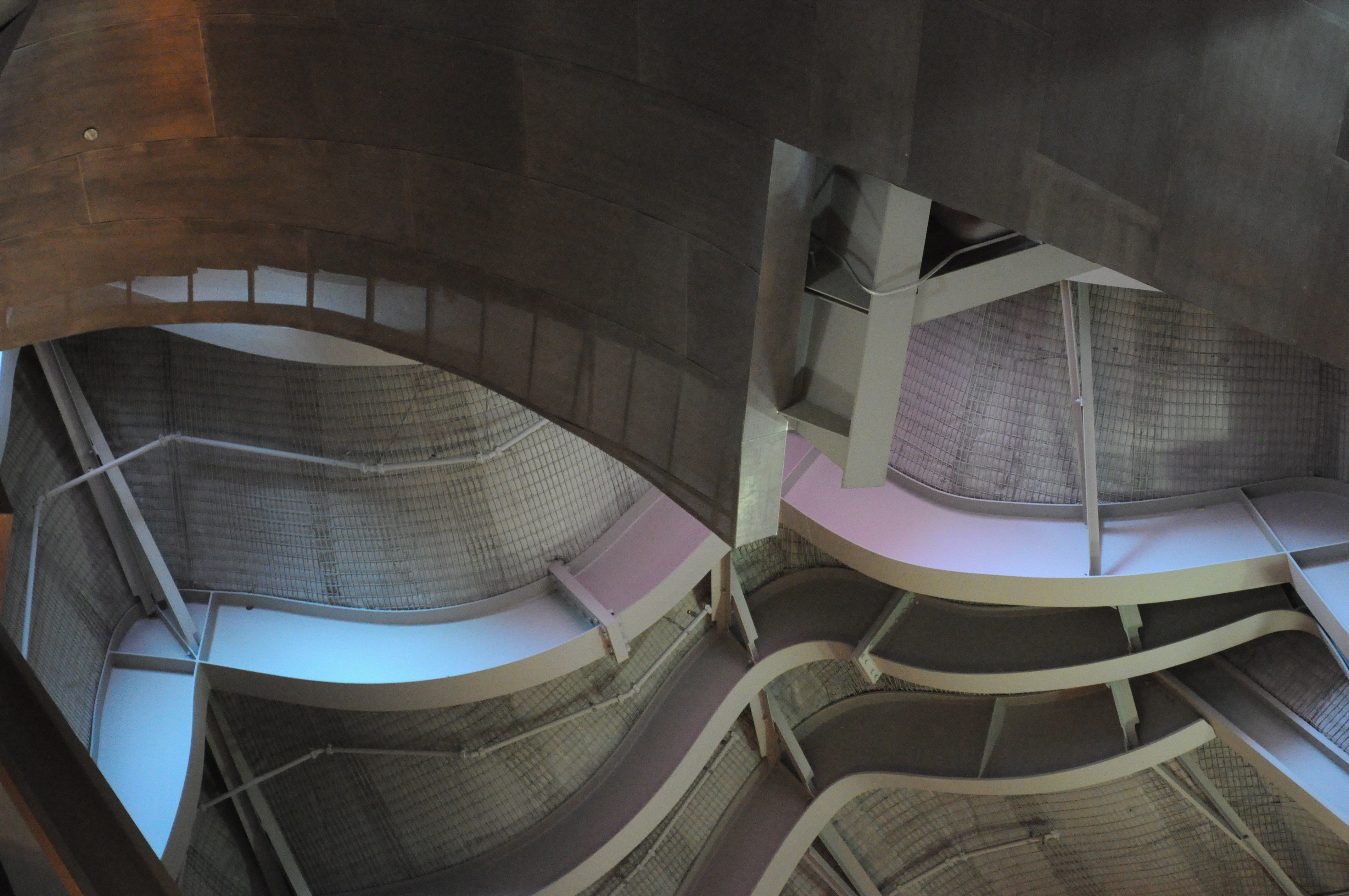 Part of the ceiling of the Experience Music Project and Science Fiction Hall of Fame, Seattle, Washington.